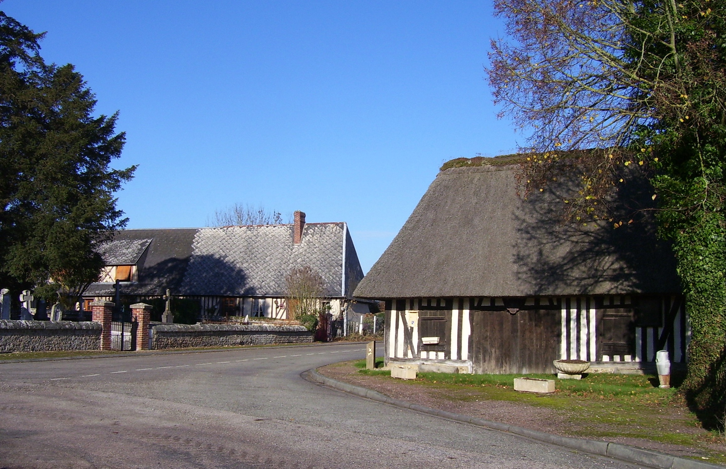 Maison de charité in the town centre of Saint-Cyr-de-Salerne in the département Eure in Normandie, France.